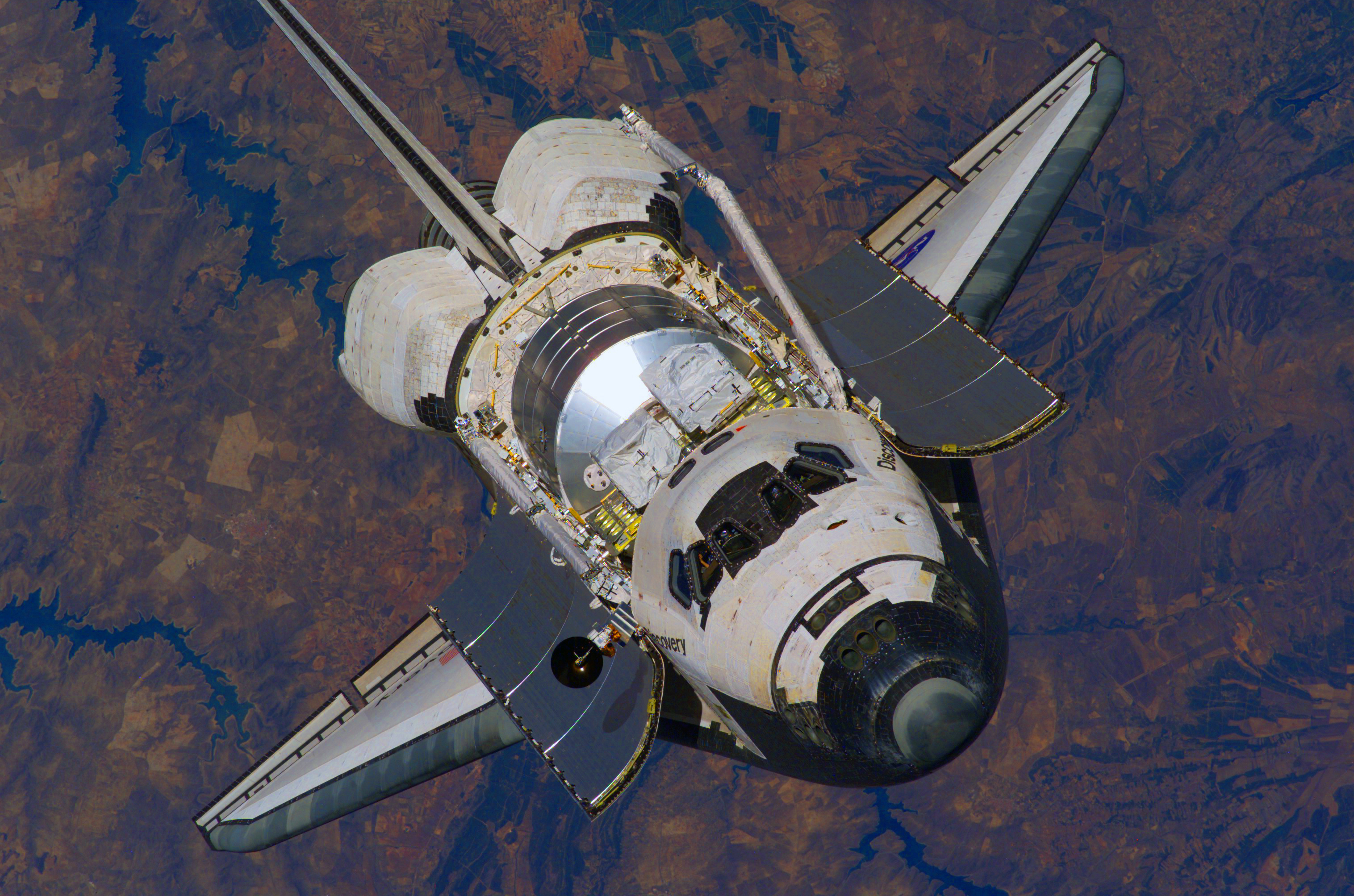 Rotated and color enhanced version of original (ISS013-E-48788 (6 July 2006) --- The Space Shuttle Discovery approaches the International Space Station for docking but before the link-up occurred, the orbiter "posed" for a thorough series of inspection photos. Leonardo Multipurpose Logistics Module can be seen in the shuttle's cargo bay. Discovery docked at the station's Pressurized Mating Adapter 2 at 9:52 a.m. CDT, July 6, 2006.)